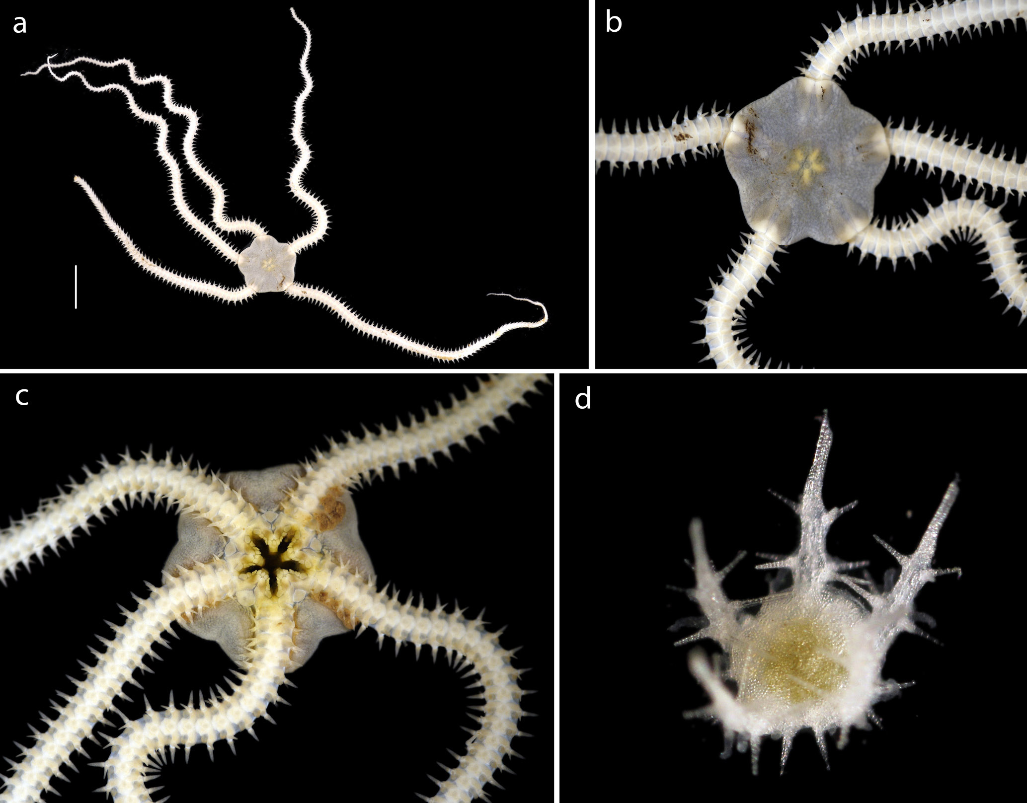 Amphioplus (Unioplus) daleus Lyman, 1879. (a) Live specimen NHM_447 imaged dorsal side. (b). Dorsal surface detail. (c). Ventral surface detail. (d) Juvenile, confirmed by DNA data, NHM_094. Scale bars (a) 10mm.